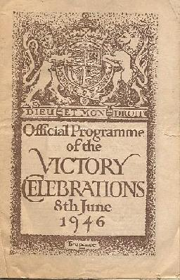 The Official Programme of the Victory Celebrations 8th June 1946